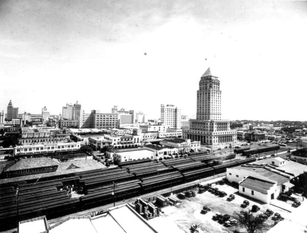 Passenger trains in downtown Miami at Government Center.